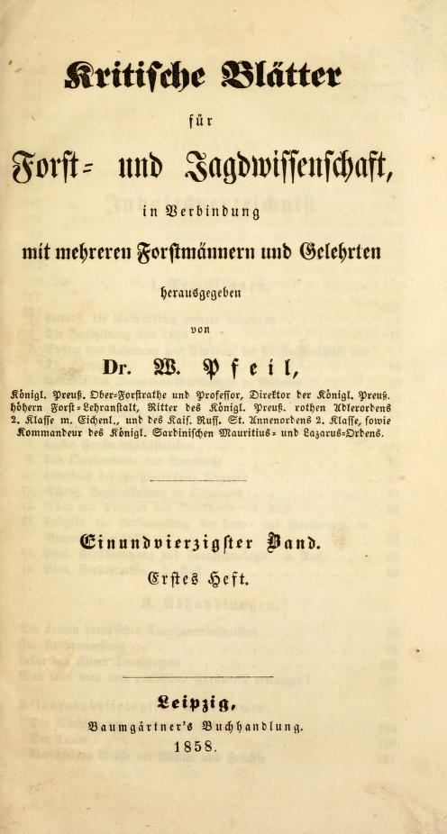 Kritische Blätter für Forst- und Jagdwissenschaft, Vol. 41, No. 1/1858; Ed. by Wilhelm Pfeil. Baumgärtner's Buchhandlung, Leipzig